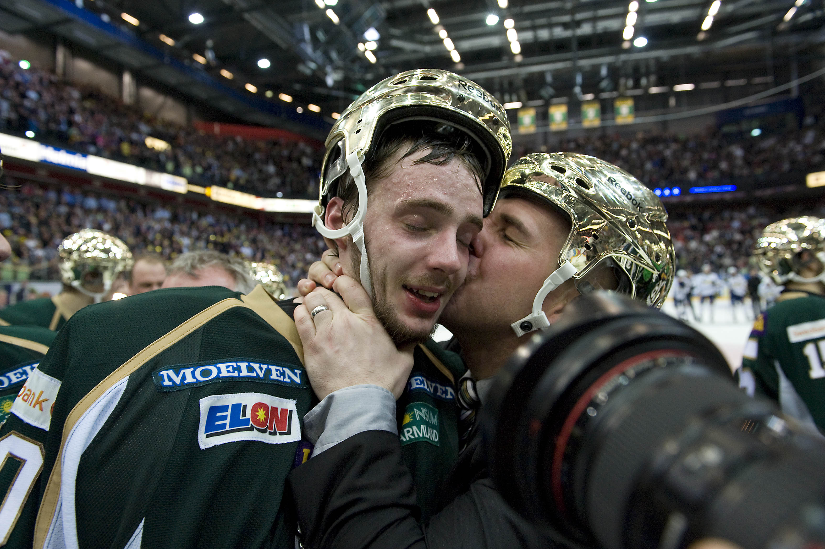 After the Championship win 2009 Gustavsson Granqvist